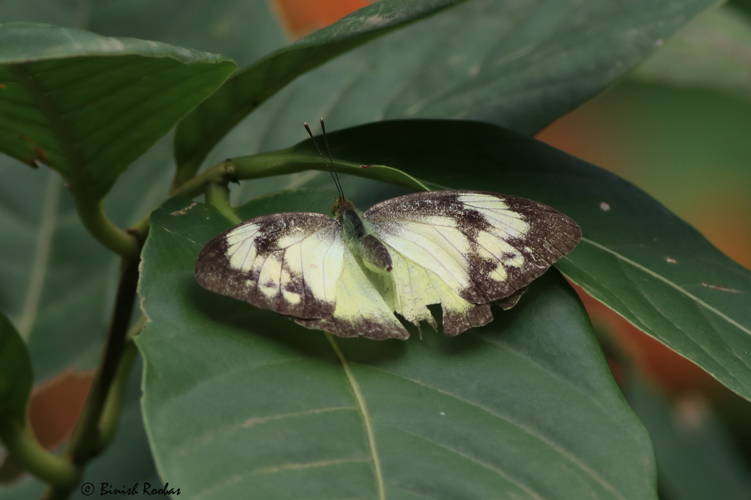 Yellow Orange Tip (Ixias pyrene) Female from BNHS, Mumbai.